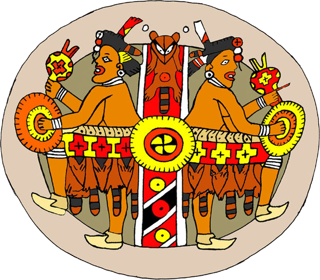 S.E.C.C. design of the Hero Twins based on a Mississippian culture shell engraving from the Spiro Mounds site. Modified from original to add background transparency.